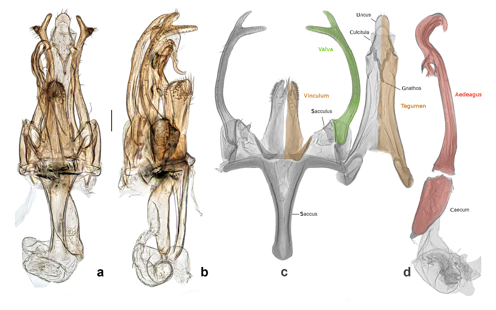 Original description: Male genitalia of Neopalpa neonata. a, b ventral and lateral view of intact genitalia, unmounted, stored in lactic acid (LACMENT326710, CA: Riverside County) c, d Unrolled genitalia and phallus of the Holotype (EMEC82306, dissection Pw1168). Scale bar 100 μm. Alteration: coulouring, spelling German